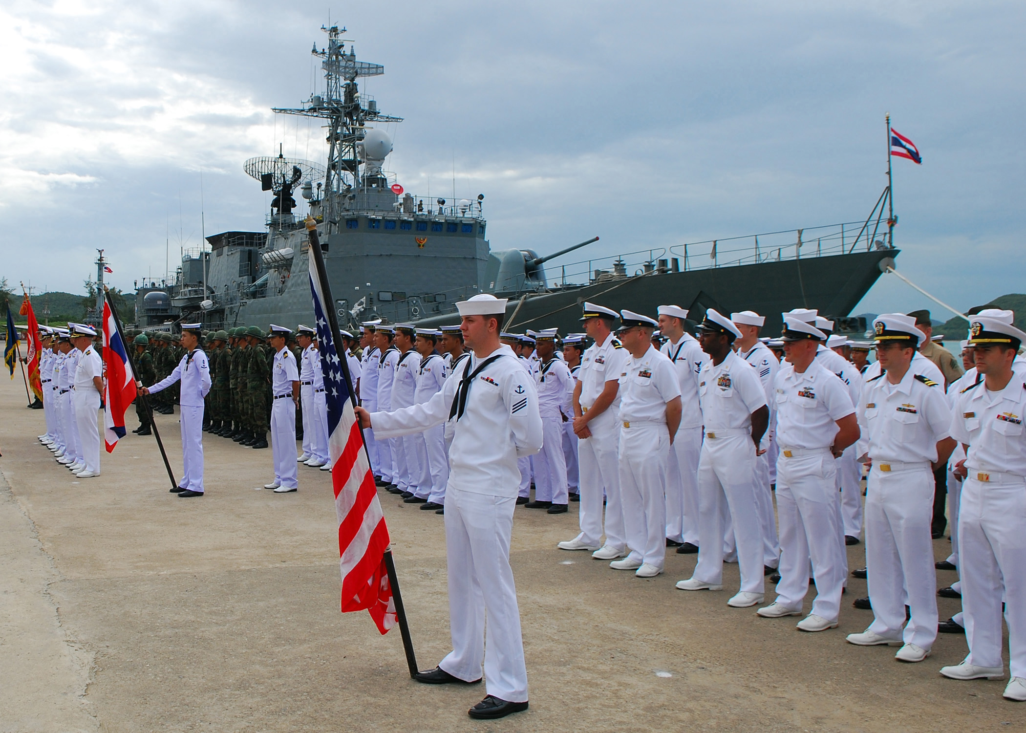 SATTAHIP, Thailand (July 16, 2009) U.S. Sailors and Marines stand in formation with their Thai counterparts in front of the Royal Thai Navy guided-missile frigate HTMS Naresuan (FFG 421) during the closing ceremony for Cooperation Afloat Readiness and Training (CARAT) Thailand 2009. CARAT is a series of bilateral exercises held annually in Southeast Asia to strengthen relationships and enhance the operational readiness of the participating forces. (U.S. Navy photo by Mass Communication Specialist 1st Class Bill Larned/Released)